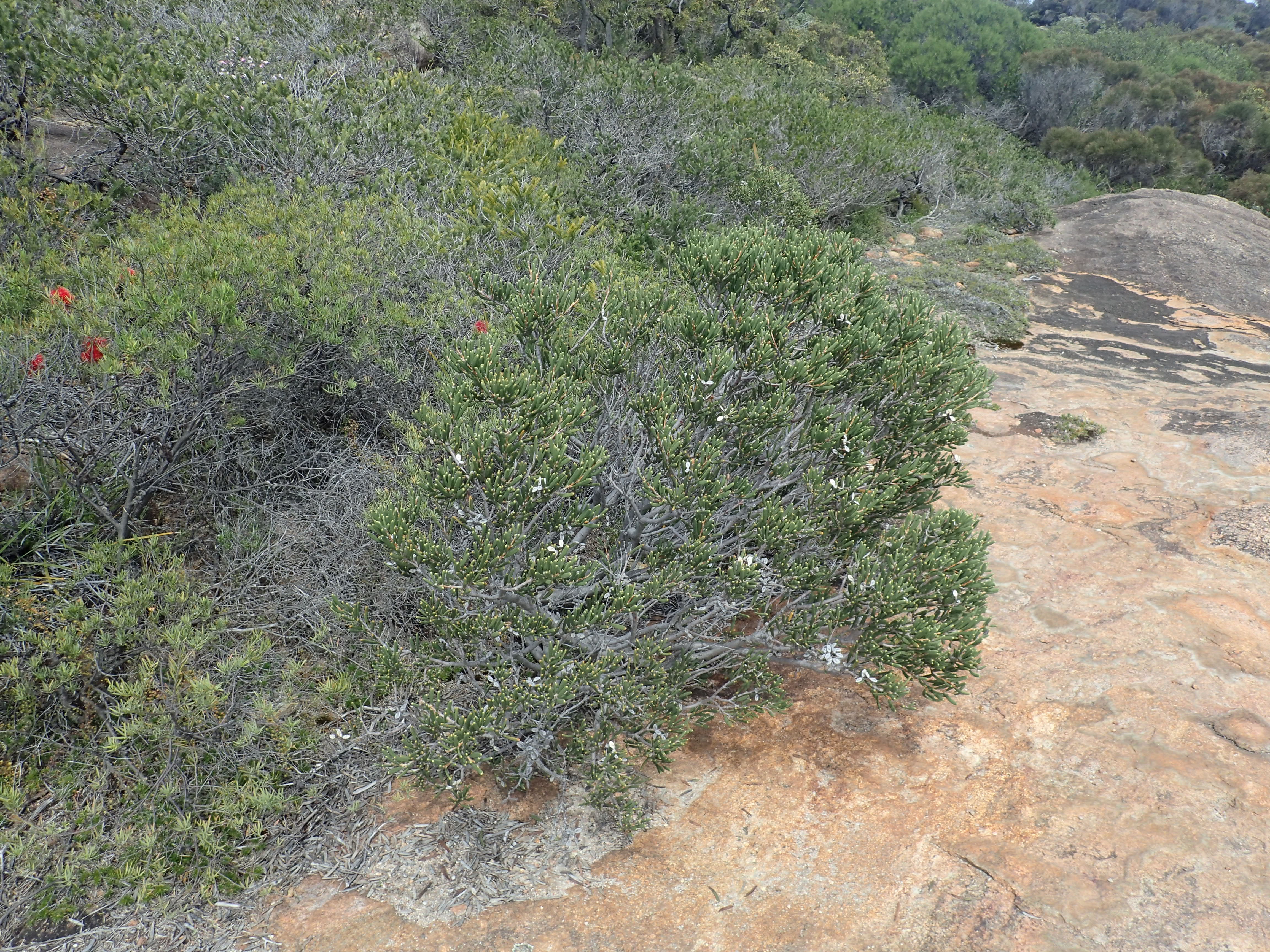 Hakea clavata growing on the headland at Lucky Bay in the ⁨Cape Le Grand National Park⁩